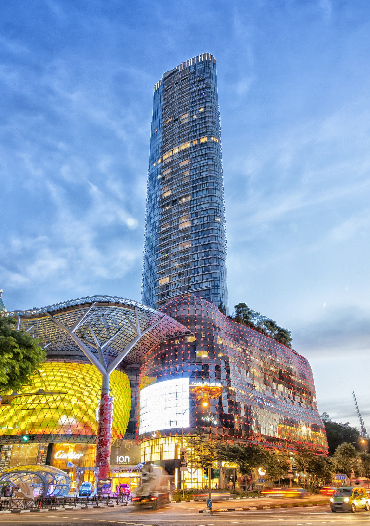 ion orchard road singapore 2012 quasi hdr